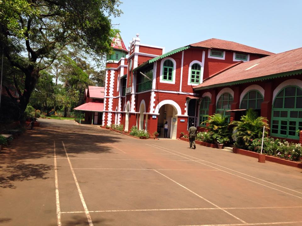 Kimmins High School in December 2014.